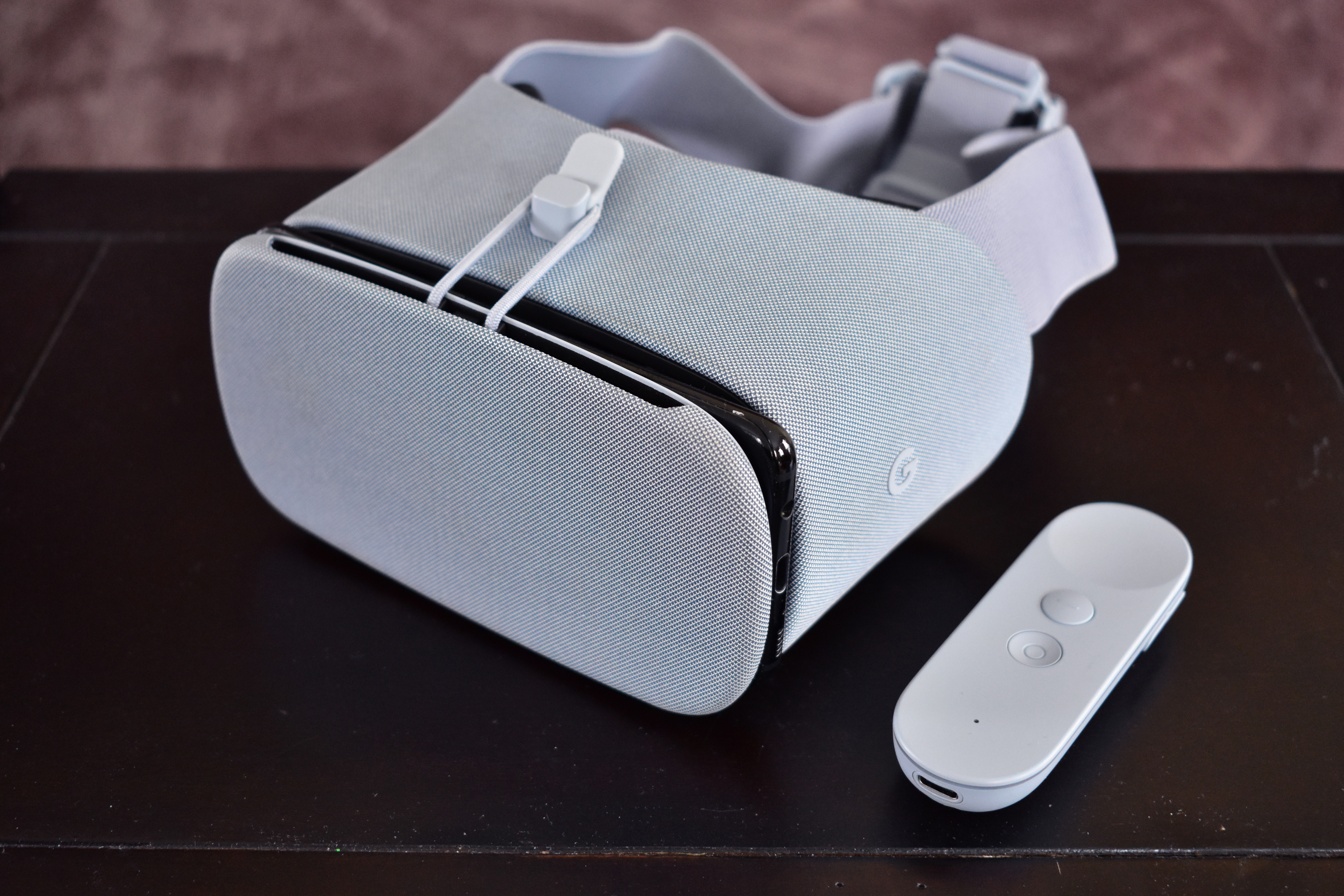 The second generation of the Google Daydream View virtual reality headset, closed with a Samsung Galaxy S8 inserted, and the controller beside it